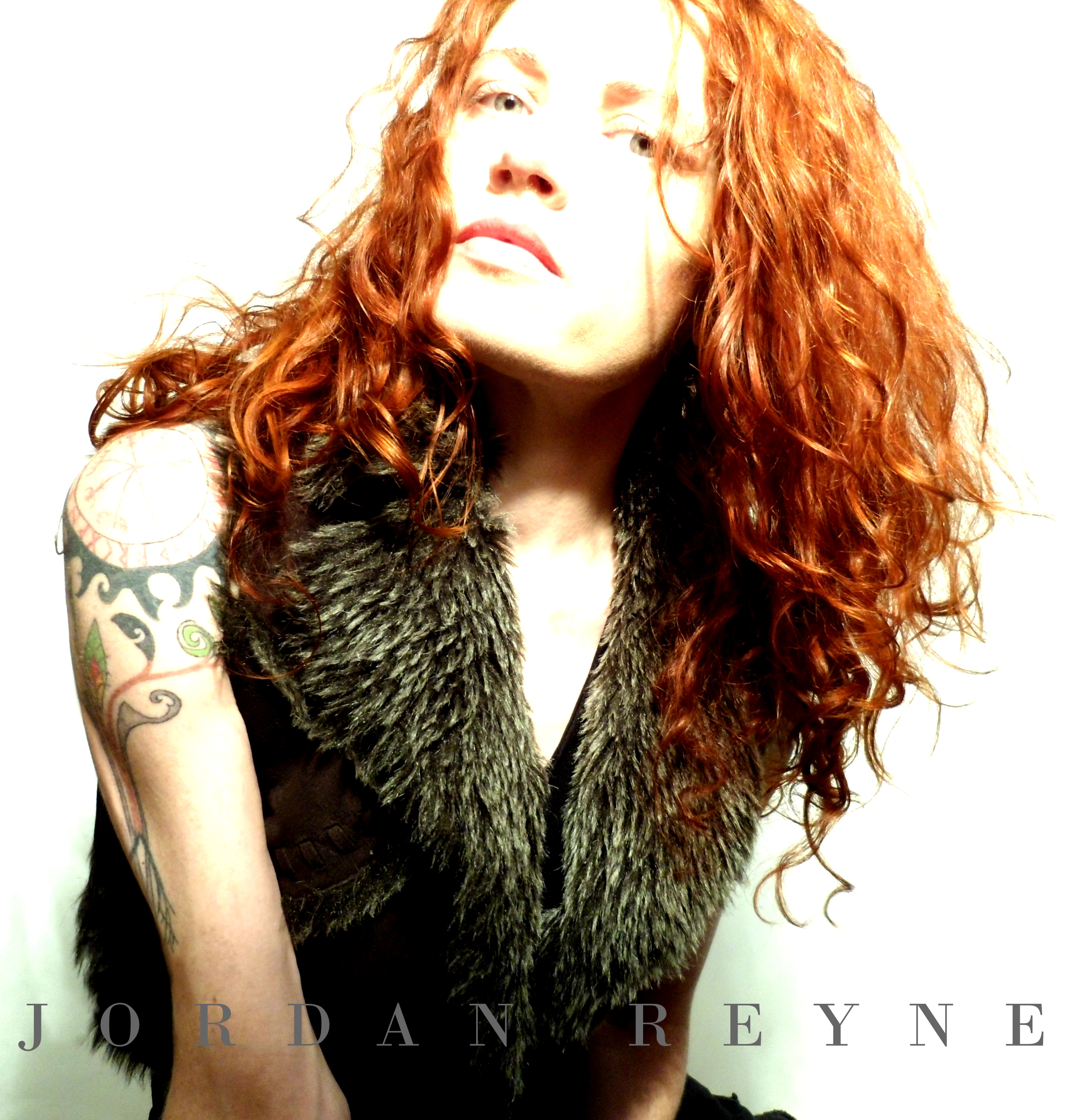 Musician Jordan Reyne 2013